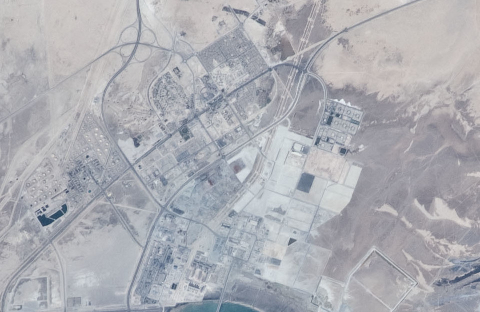 Satellite imagery of Mesaieed and Al Wakrah City taken in 2010 by NASA.